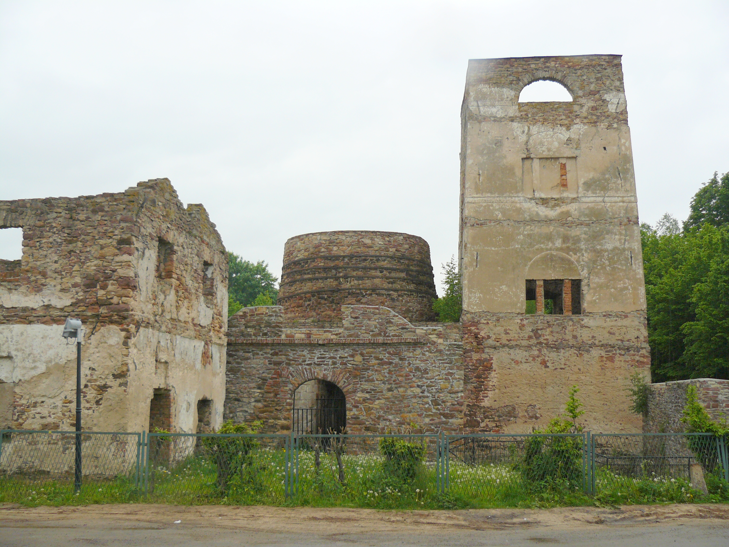 Ruins of steelworks, 19th century, en Samsonów, Poland, view from the road